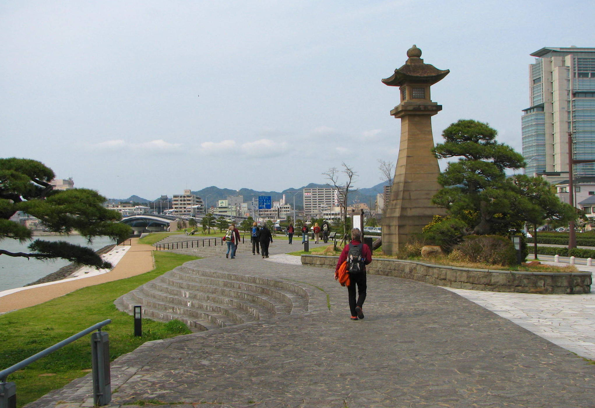 Matsue, Shimane Prefecture, Japan